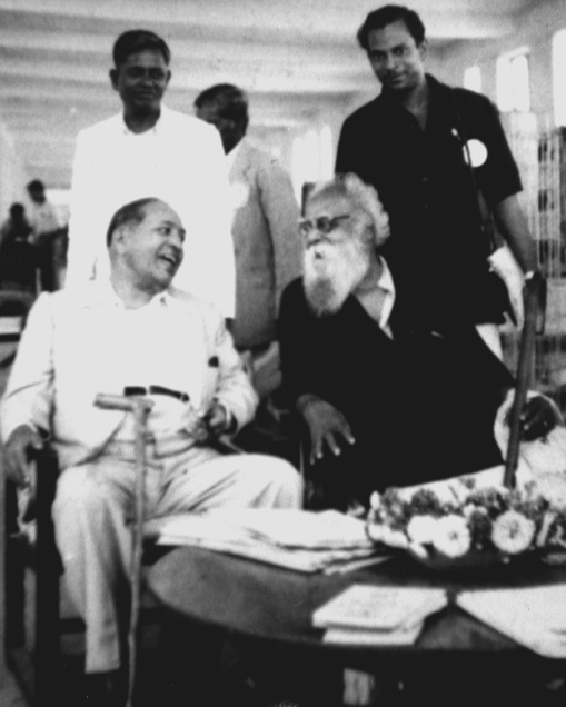 Rangoon, 1954. Babasaheb Ambedkar with Periyar when they met in connection with a Buddhist conference there